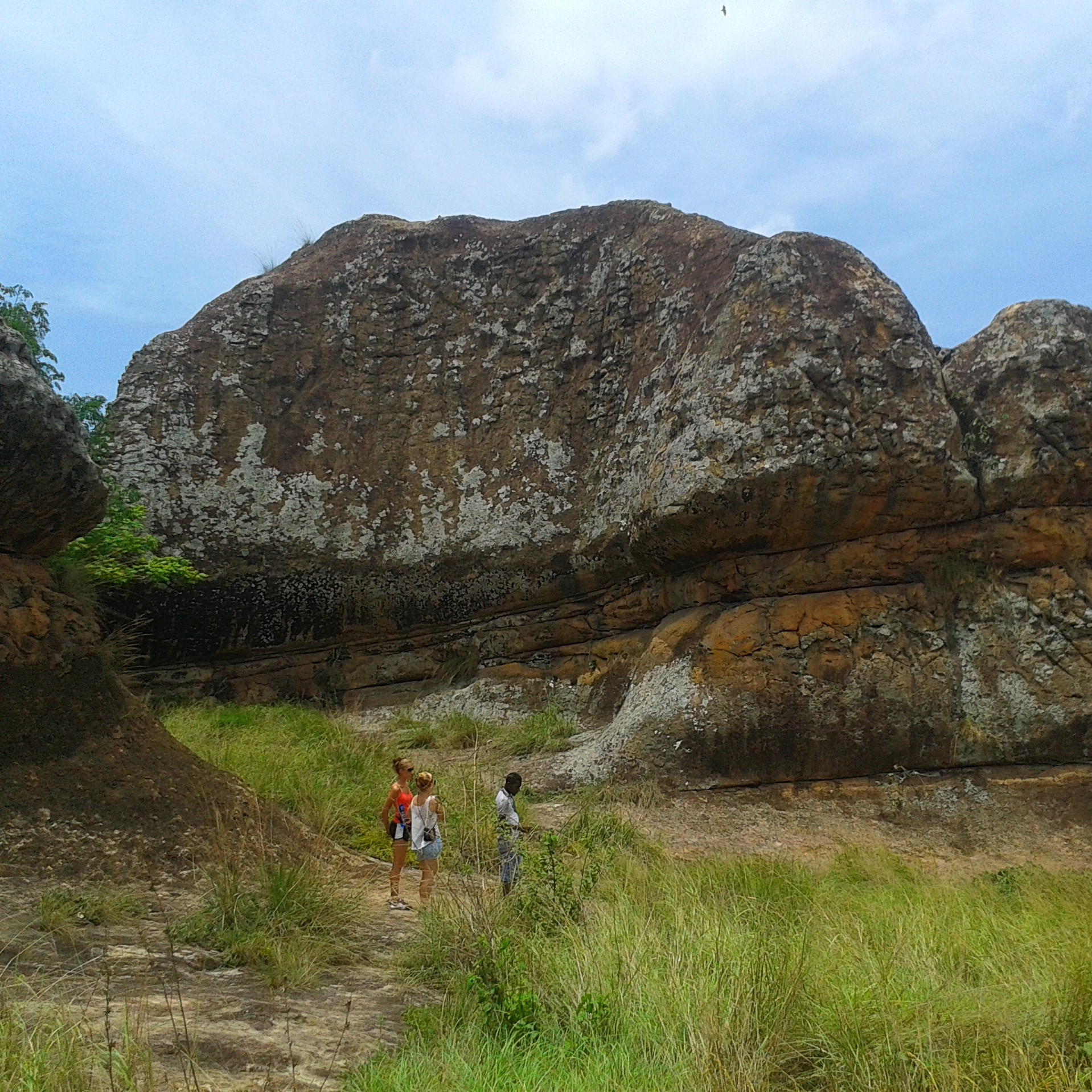 This rich valley is full of naturally formed rocks that are extremely high and almost appear artificially arranged. They possess rich history from kingship to marriage and culture.